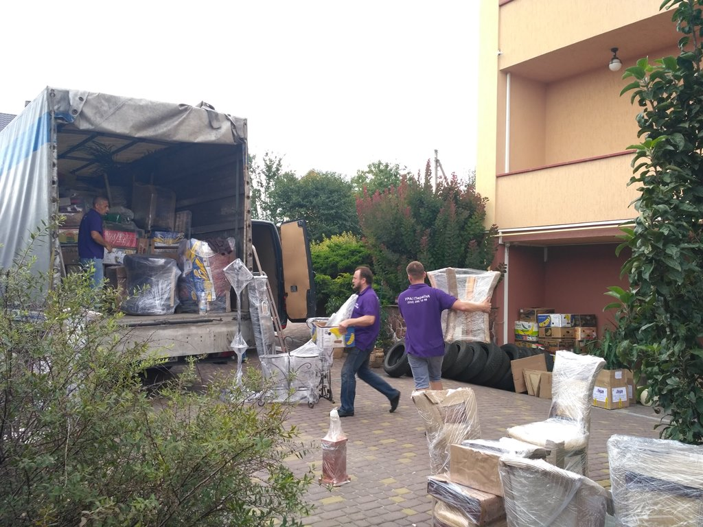 Moving activity by УРА! Переїзд_08-2017